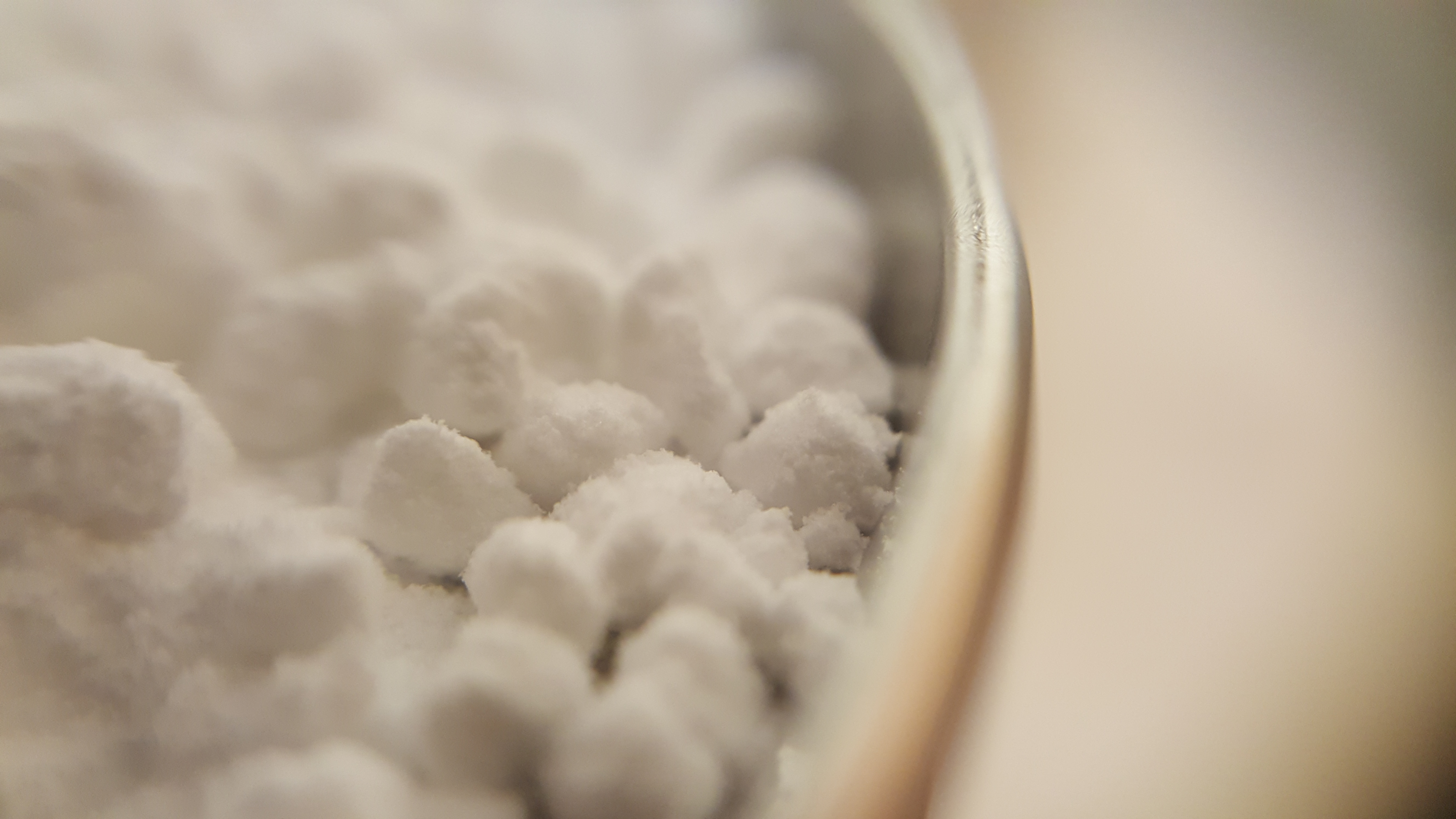 powdered sugar shot with macro lens